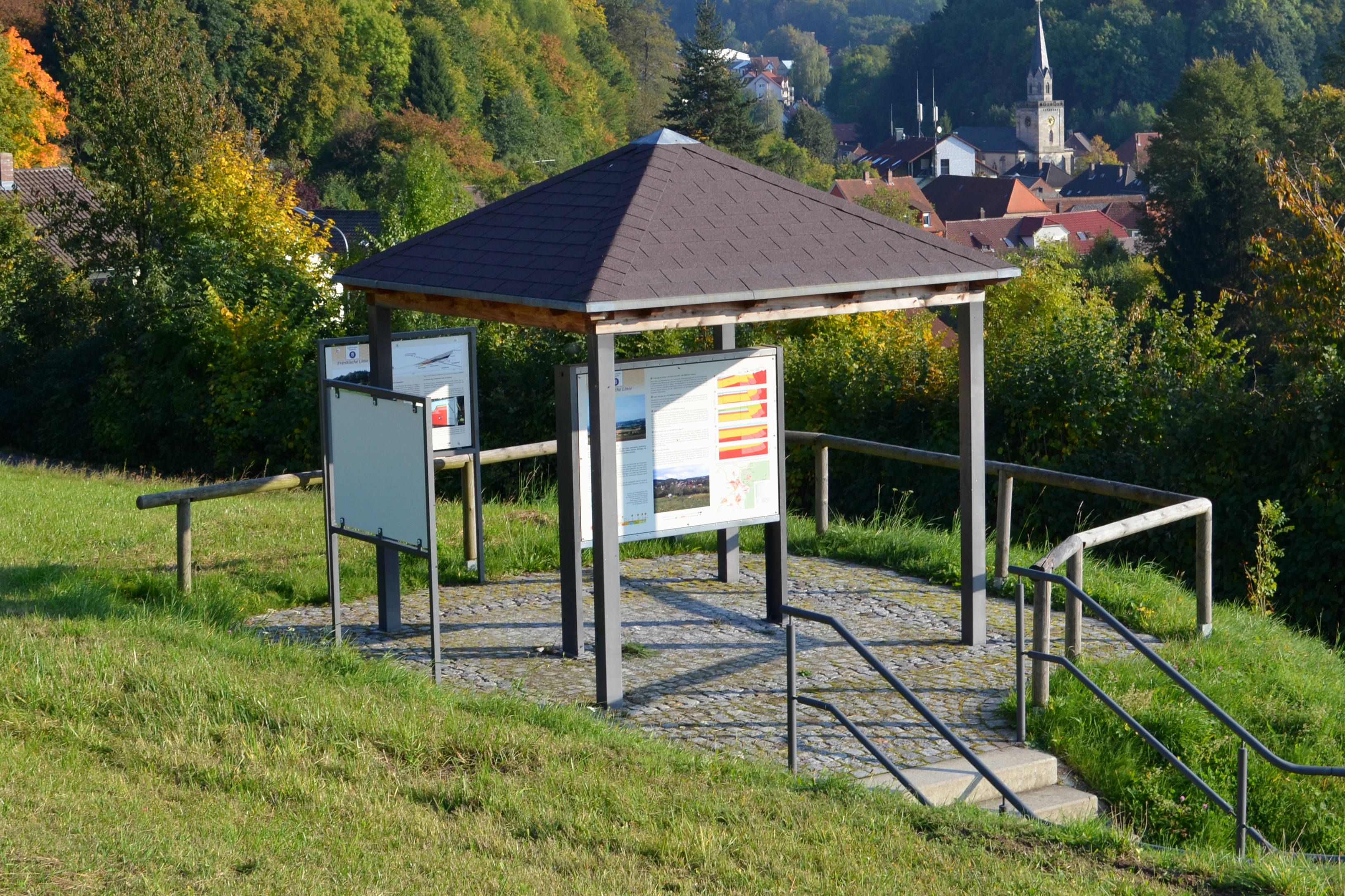 Information pavilion of the Geopark Bavaria-Czechia near Goldkronach